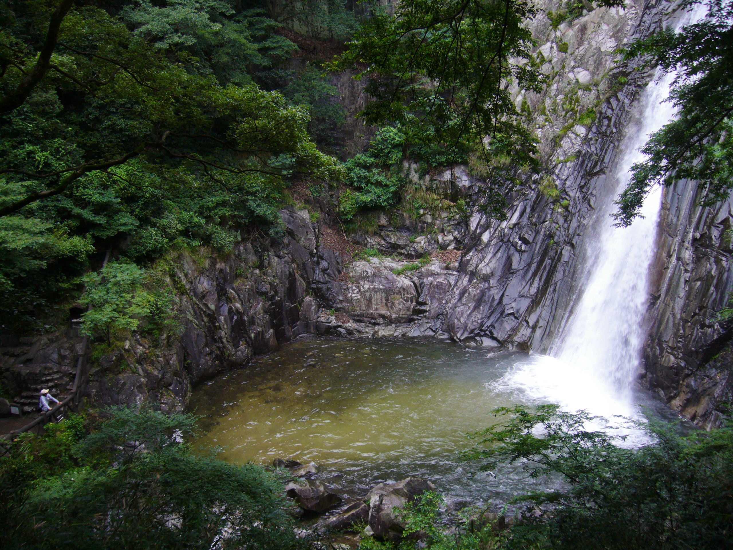 Odaki, one of the Nunobiki Falls